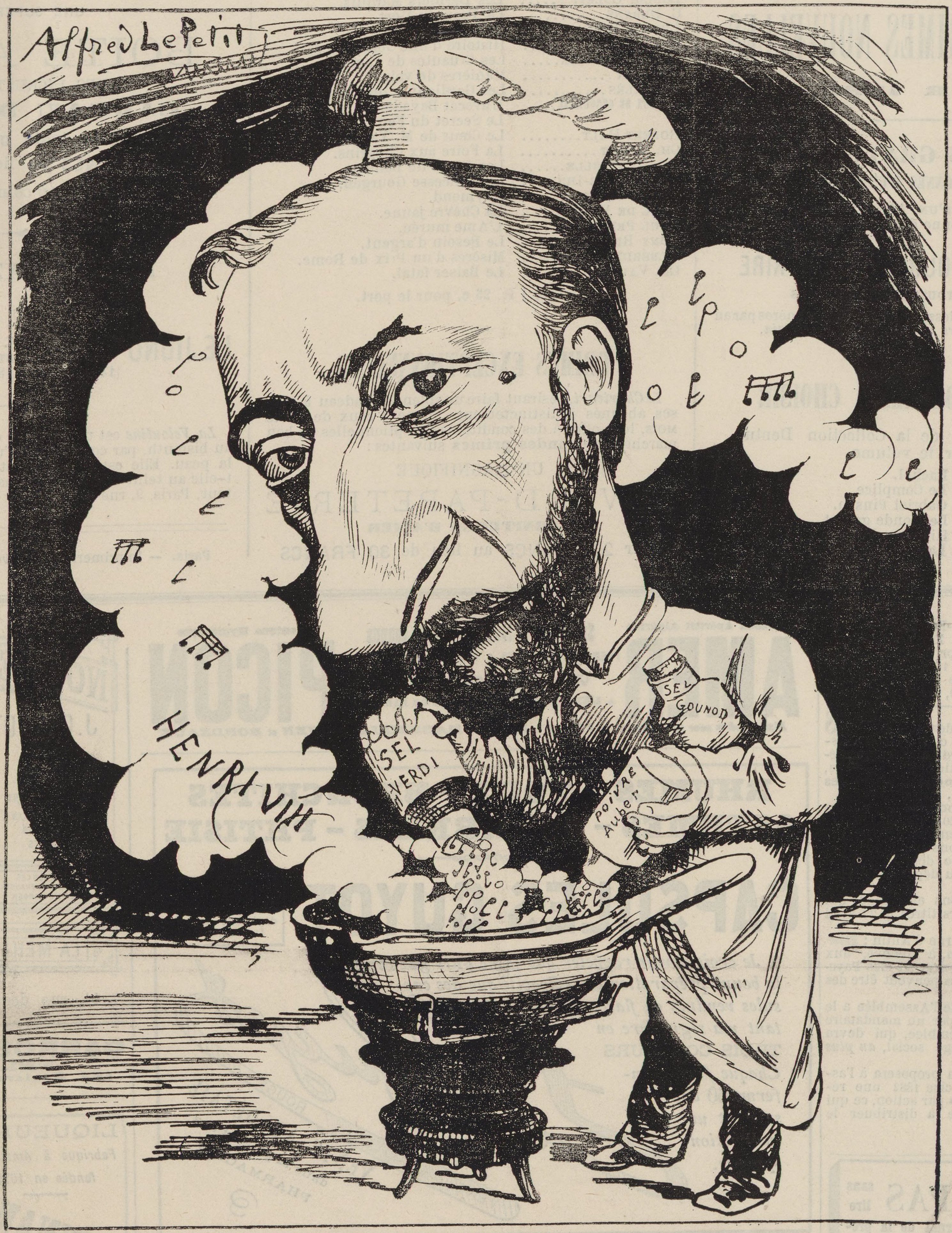 Caricature of Saint-Saëns by Alfred Lepetit